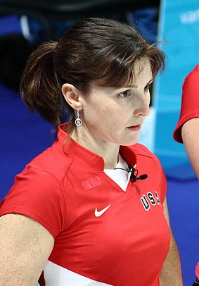 Allison Pottinger; 2010 Vancouver Olympic Games - Women's Curling - Preliminary from Vancouver Olympic Centre